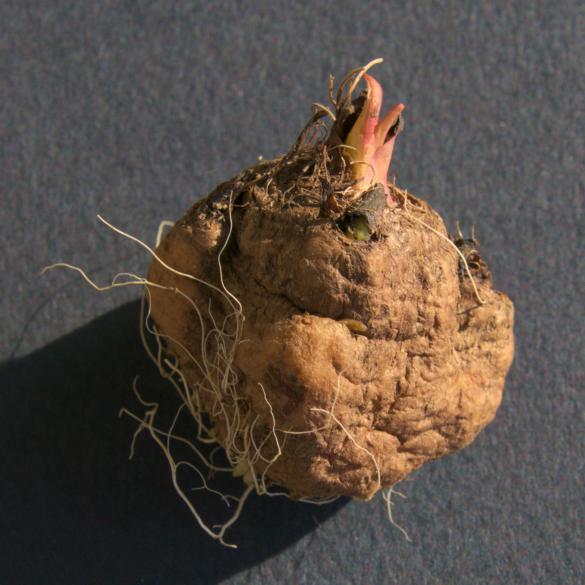 Corm of dense blazing star. Height of the corm is appr. 2 cm.